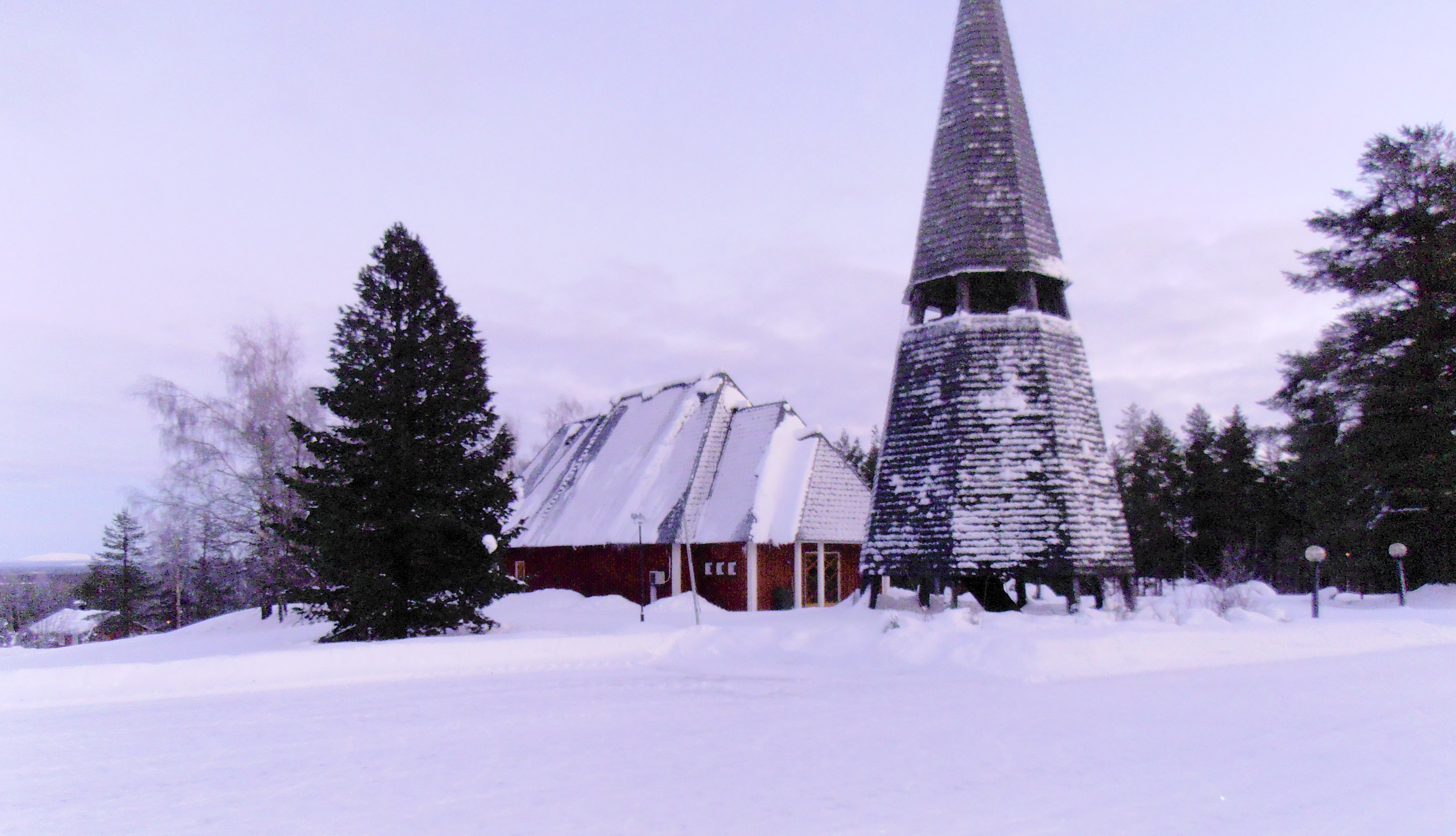 The church in Kaunisvaara, Sweden